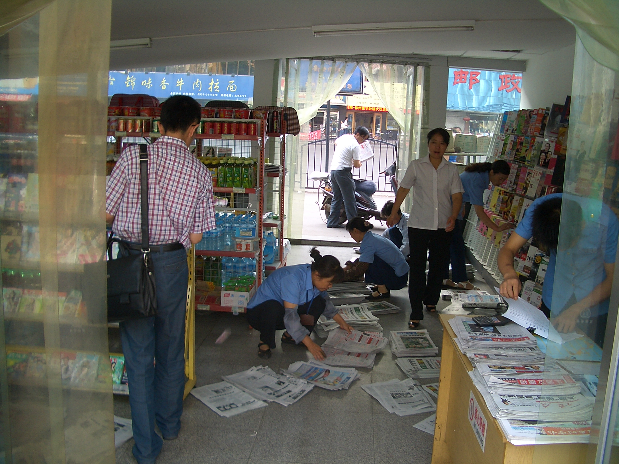 A small newsagent and bookshop near the main Lanzhou train station